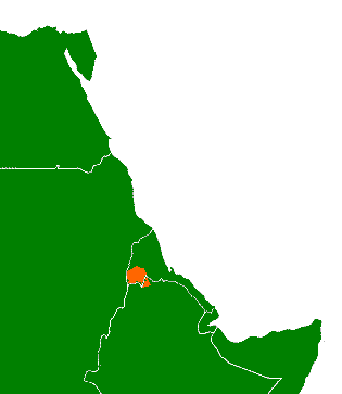 Nilo-Saharan languages distribution